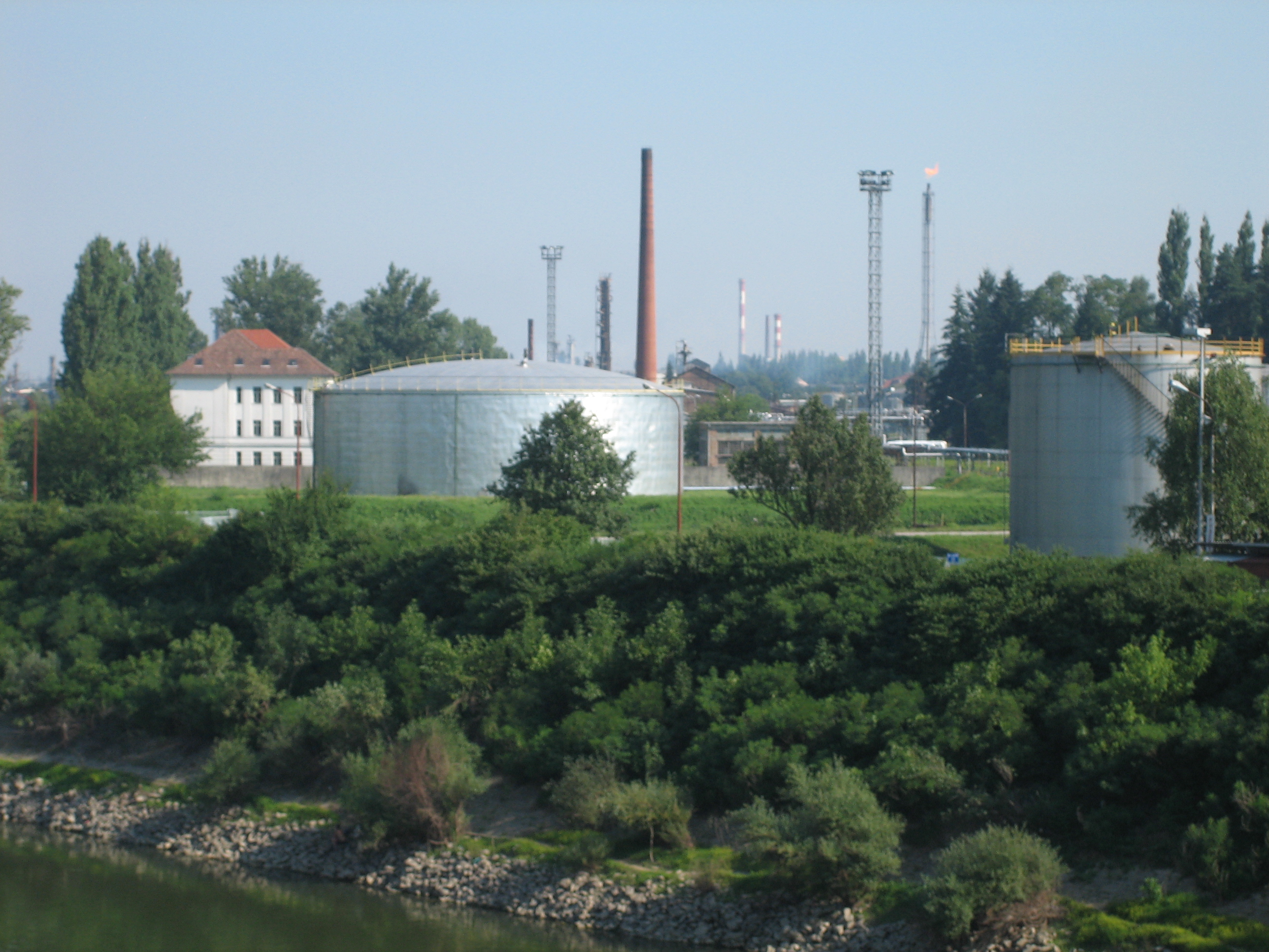 Oil refinery in Sisak, Croatia / INA Rafinerija nafte, Sisak.